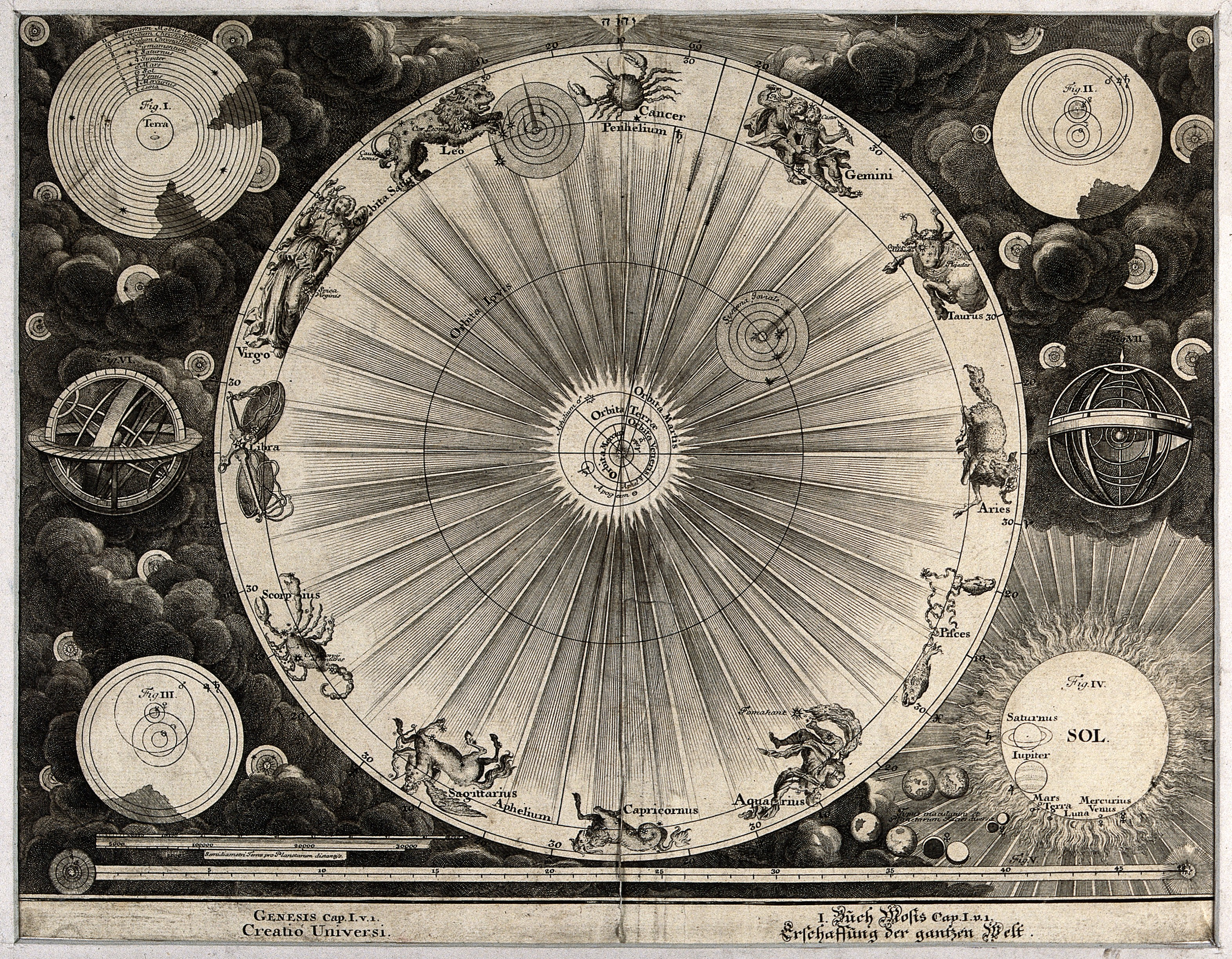 A cosmological plan detailing Copernicus' astronomical vision, surrounded by diagrams of the systems of Ptolemy and Tycho Brahe ; astronomical figures line the circle. Line engraving by J.A. Fridrich after J.M. Füssli, 1732. Iconographic Collections Keywords: Nicolaus Copernicus; Jacob Andreas Fridrich; Tycho Brahe; Johann Melchior Füssli